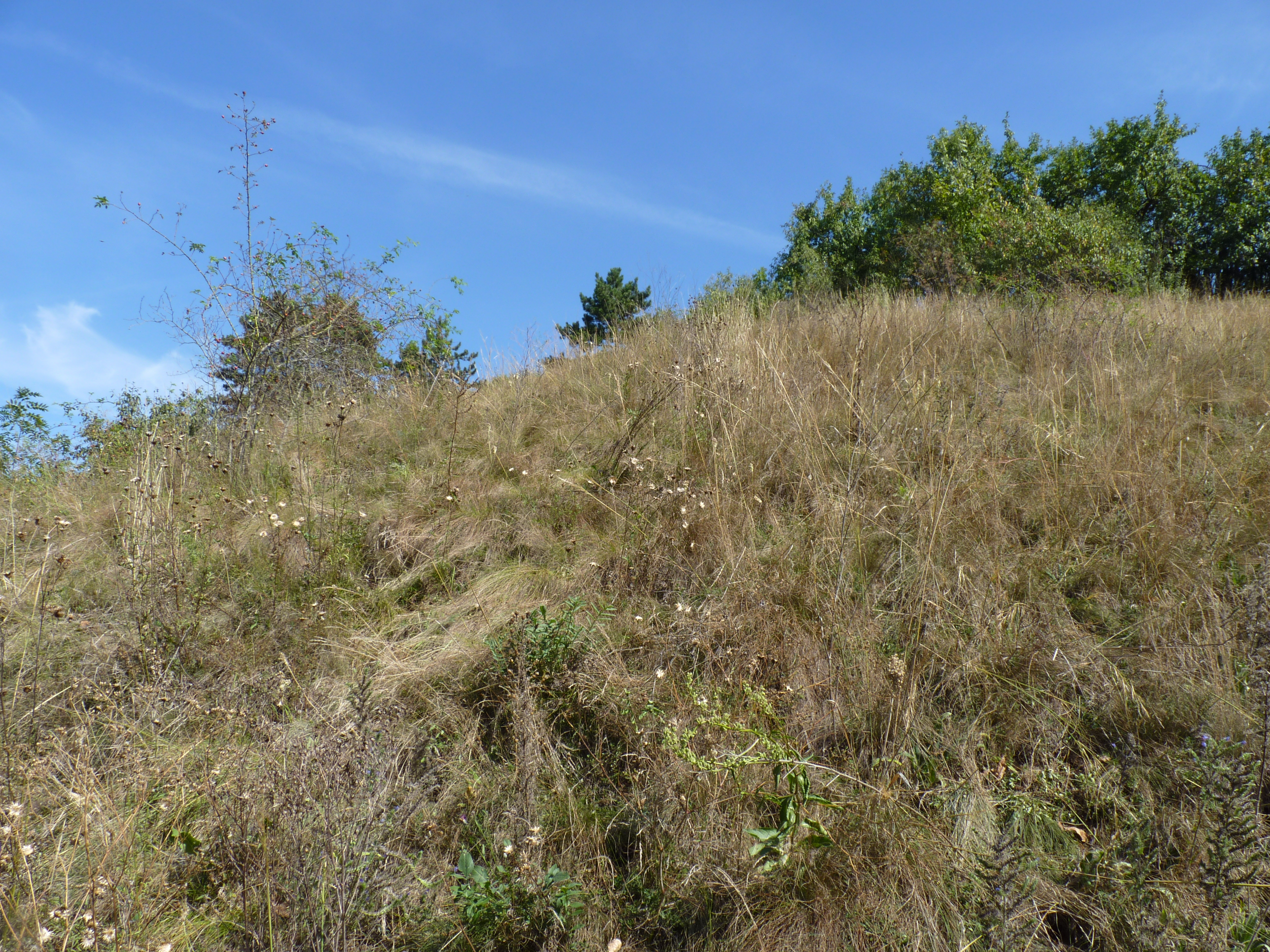 Velatická slepencová stráň (natural monnument). Brno-Country District, South Moravian Region, Czech Republic